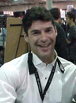 Pornographic actor James_Bonn